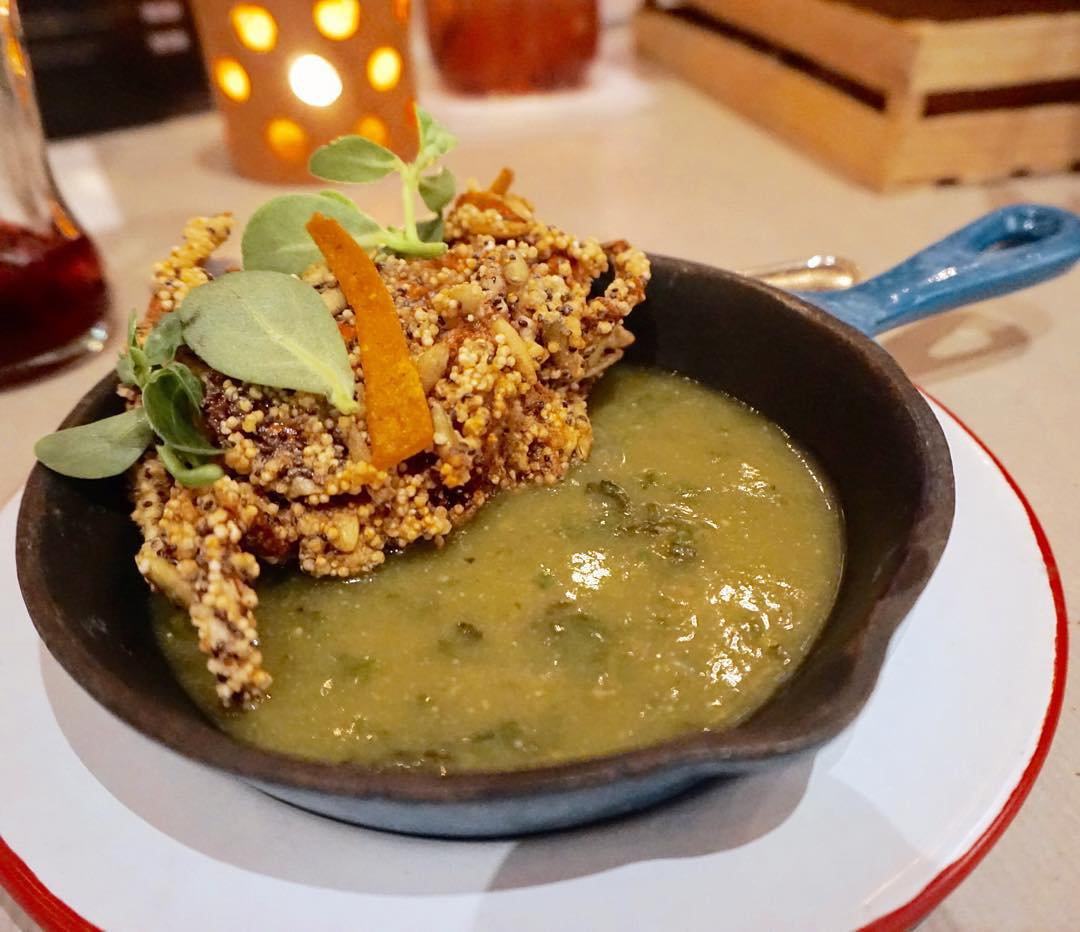 Jaibas en Michmole.